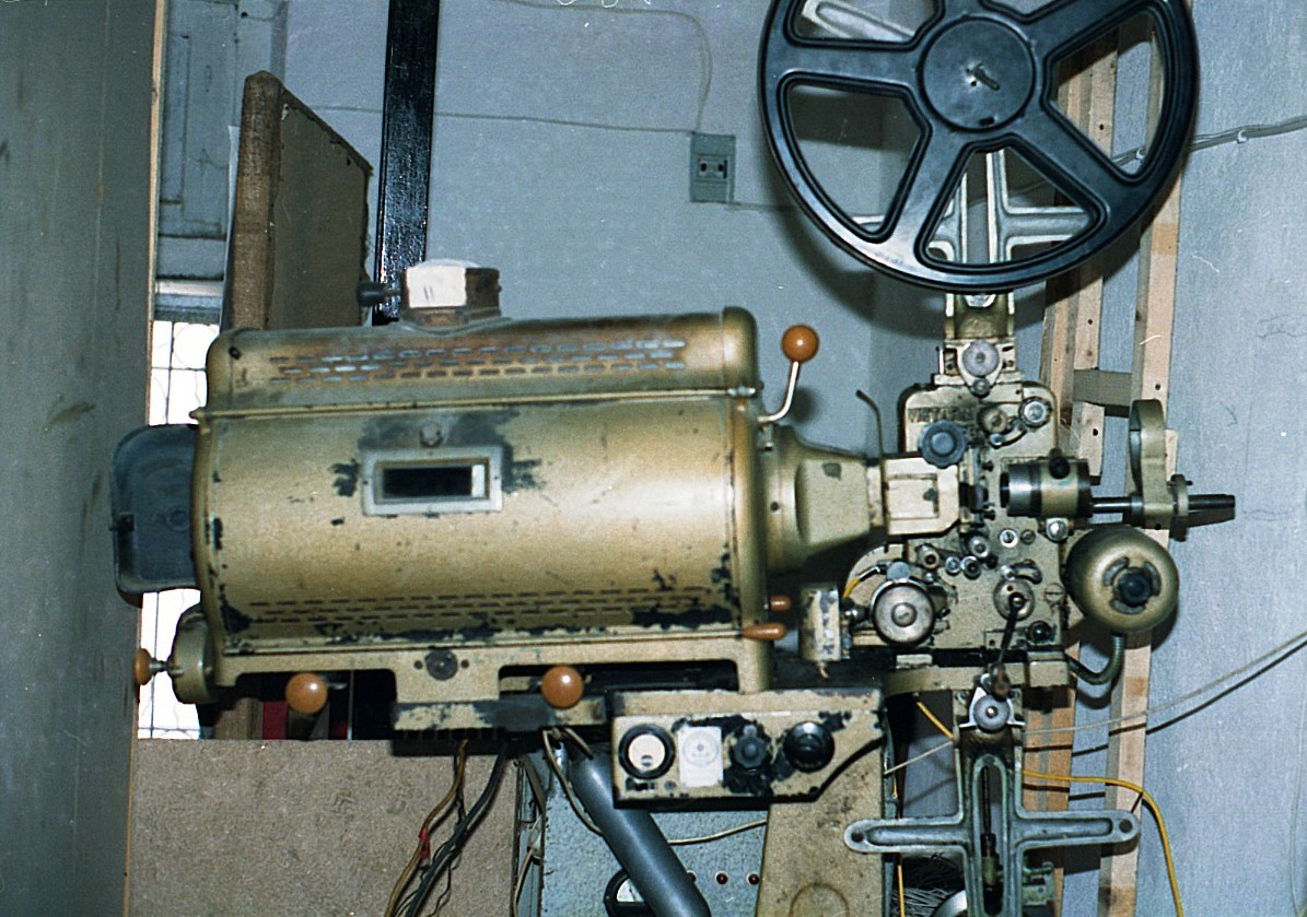 Cinemeccanica movie projector from circa 1950 in small cinema of folklore and arts union.